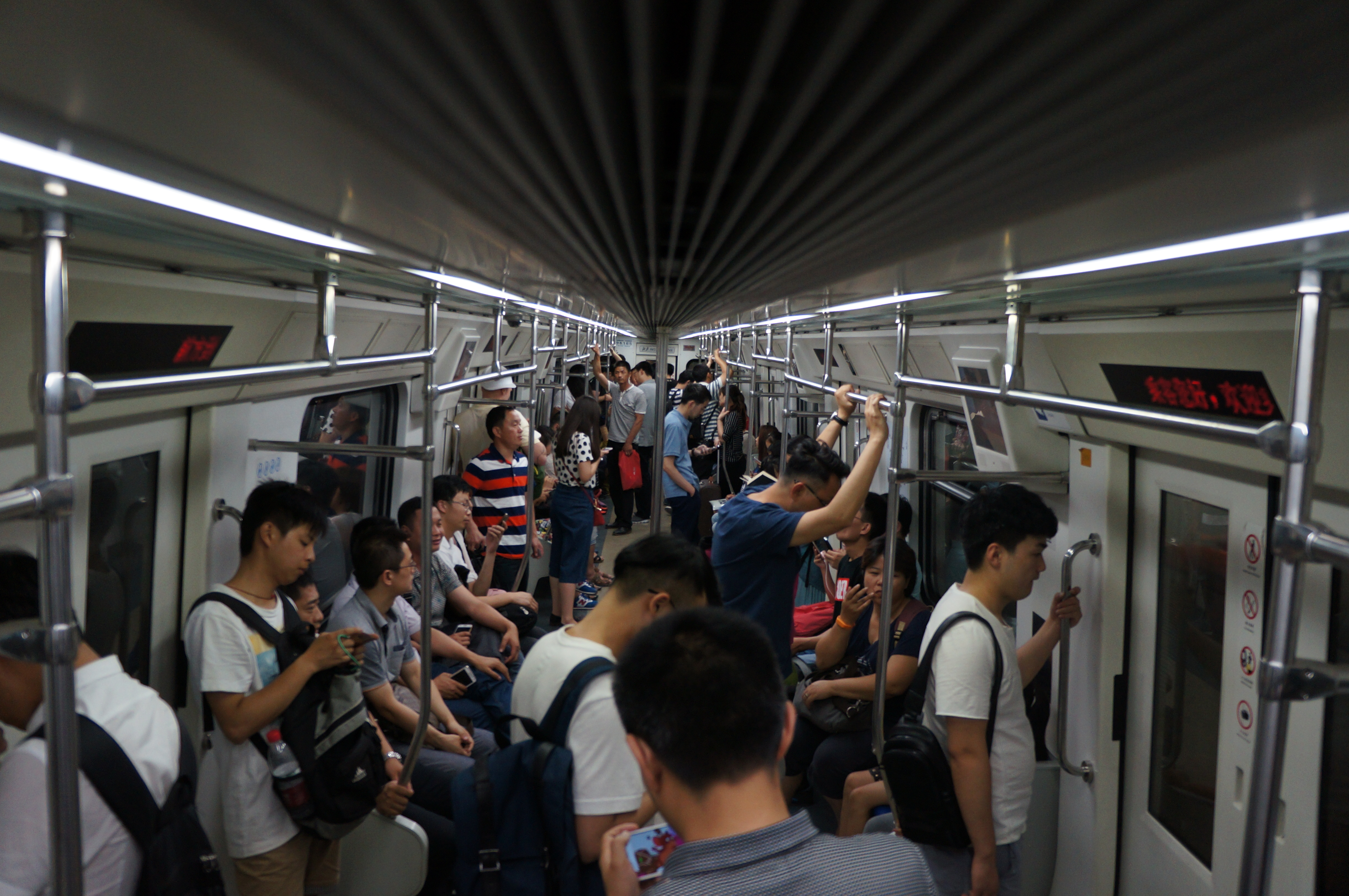 201606 Interior of DKZ5